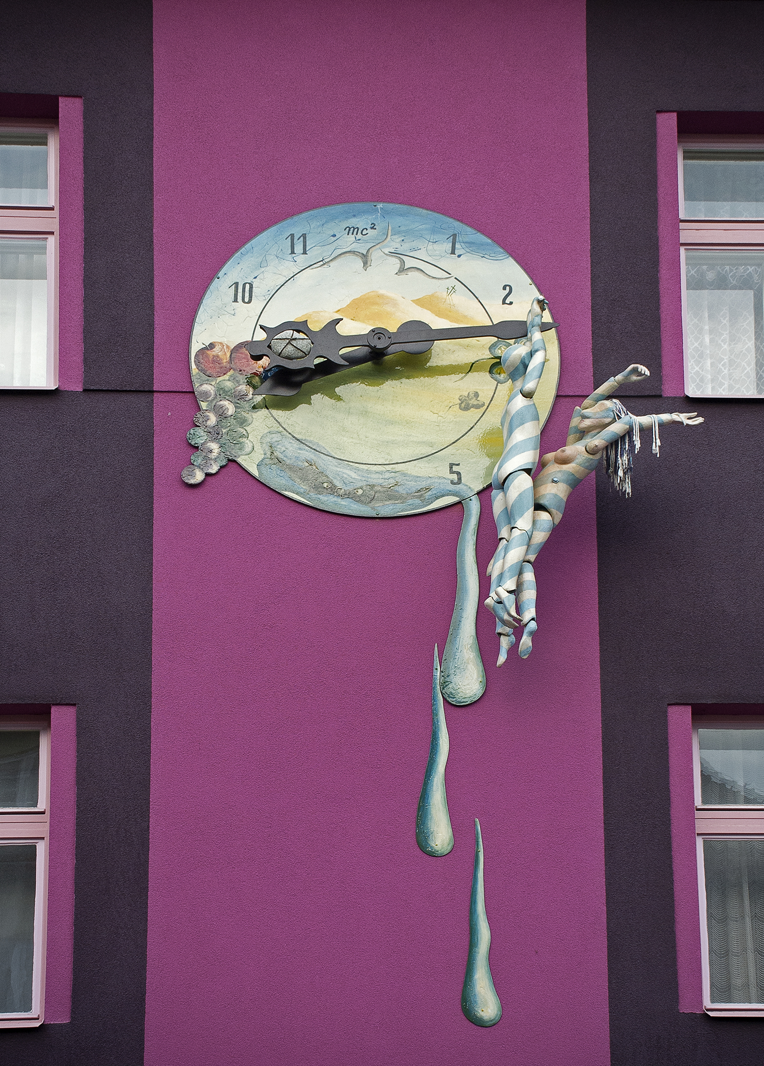 Kristek House Clock in Brünn